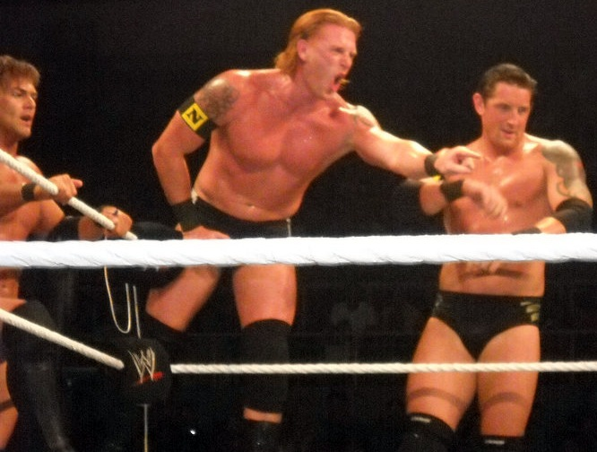 {from left to right): Justin Gabriel, Heath Slater and Wade Barrett at a house show